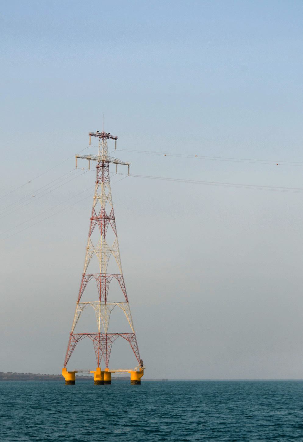 Pylon of the power line crossing of the Clarence Strait between the Iranian mainland and Qeshm Island; Hormozgan Province, Iran